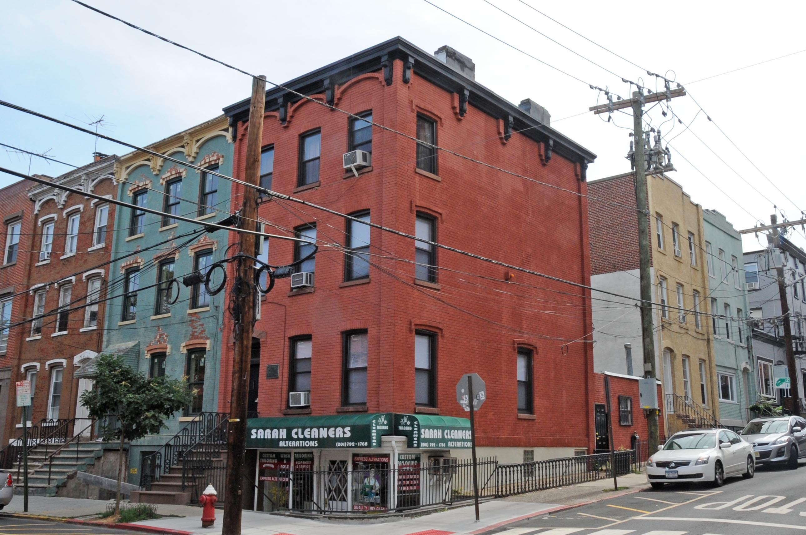 ONLY HOUSE STILL STANDING IN WHICH STEPHEN FOSTER IS KNOWN TO HAVE LIVED. HERE IN 1854 HE COMPOSED AND PUBLISHED “JEANNIE WITH THE LIGHT BROWN HAIR”